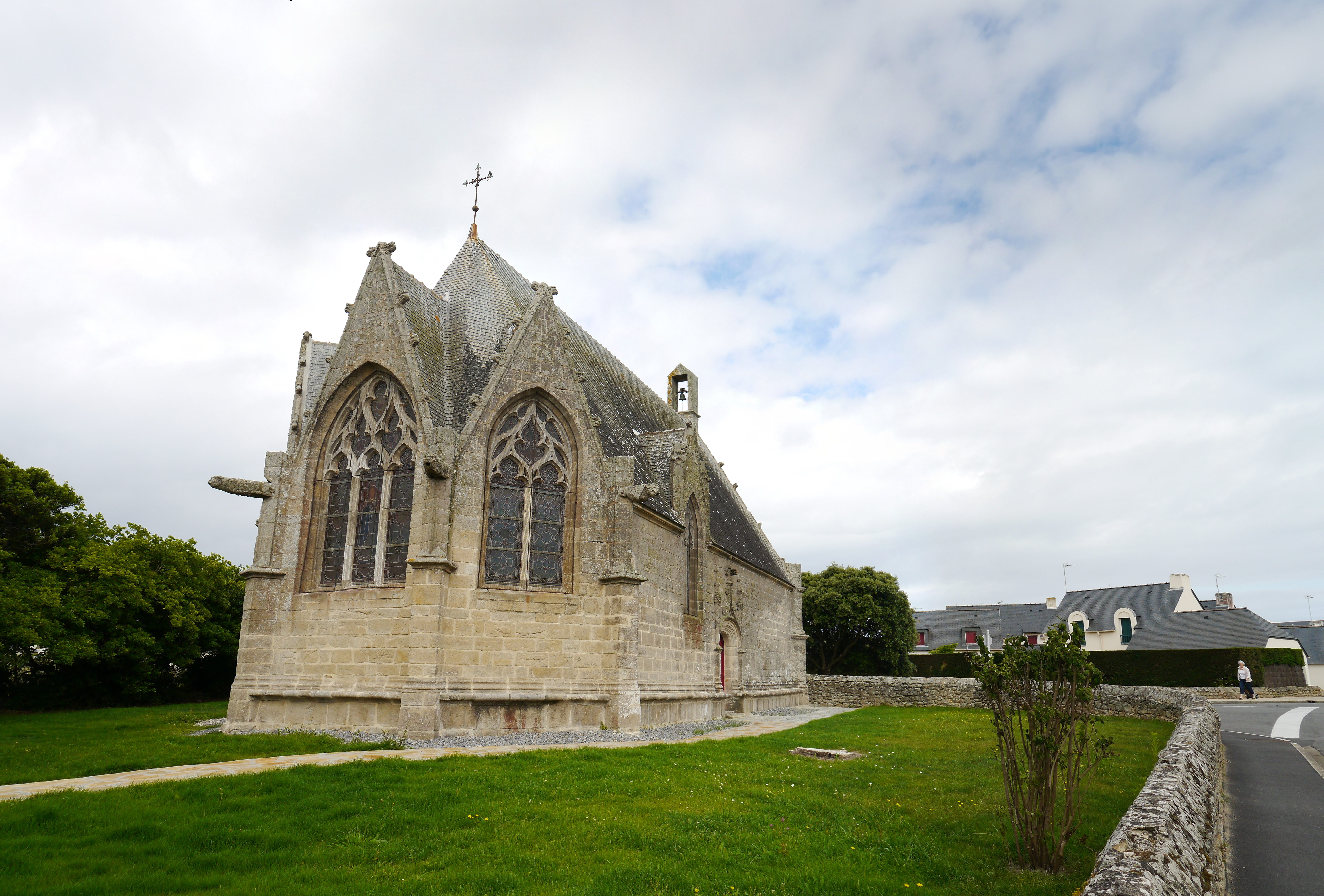 Le Croisic, Loire-Atlantique, France. Chapelle du Crucifix.